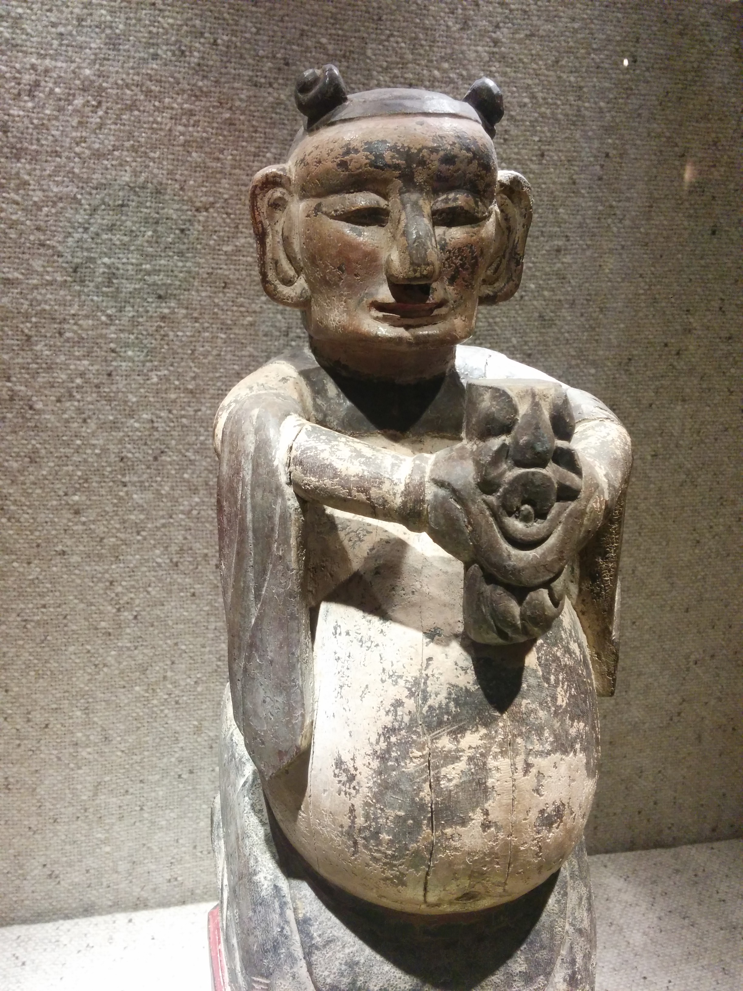 National Museum of Vietnamese History.